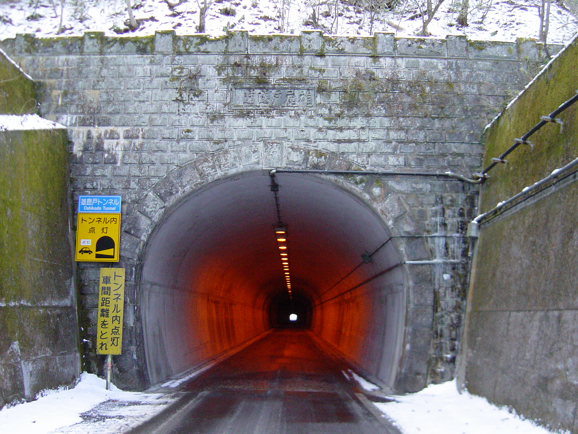 Oshikado Tunnel on Japanese National Route 340, seen from the Iwaizumi side